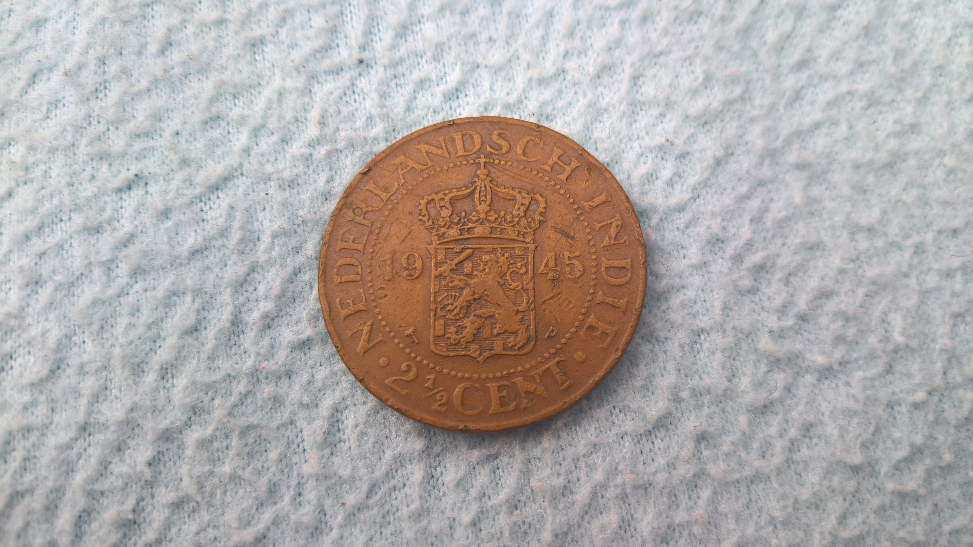 A coin minted in the United States of America for circulation in the Dutch East-Indies after World War II.